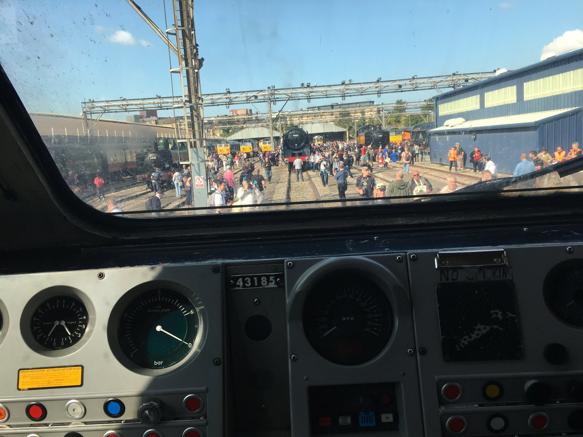 Inside the cab of 43185, as seen during the Old Oak Common Open Day (Legends of the Great Western) event.